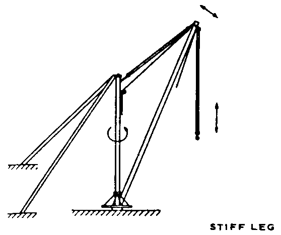 A "stiffleg derrick" is a derrick similar to a guy derrick except that the mast is supported or held in place by two or more stiff members, called stifflegs, which are capable of resisting either tensile or compressive forces. Sills are generally provided to connect the lower ends of the stifflegs to the foot of the mast.